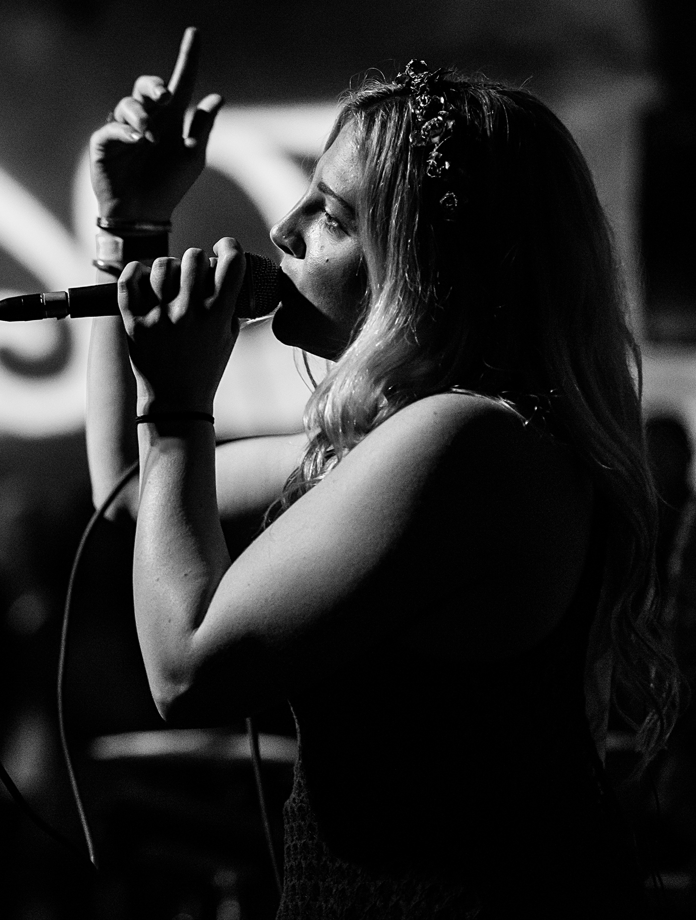 Rozes at School Night at Bardot Hollywood